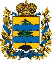 Suwałki gubernia (Russian empire), coat of arms